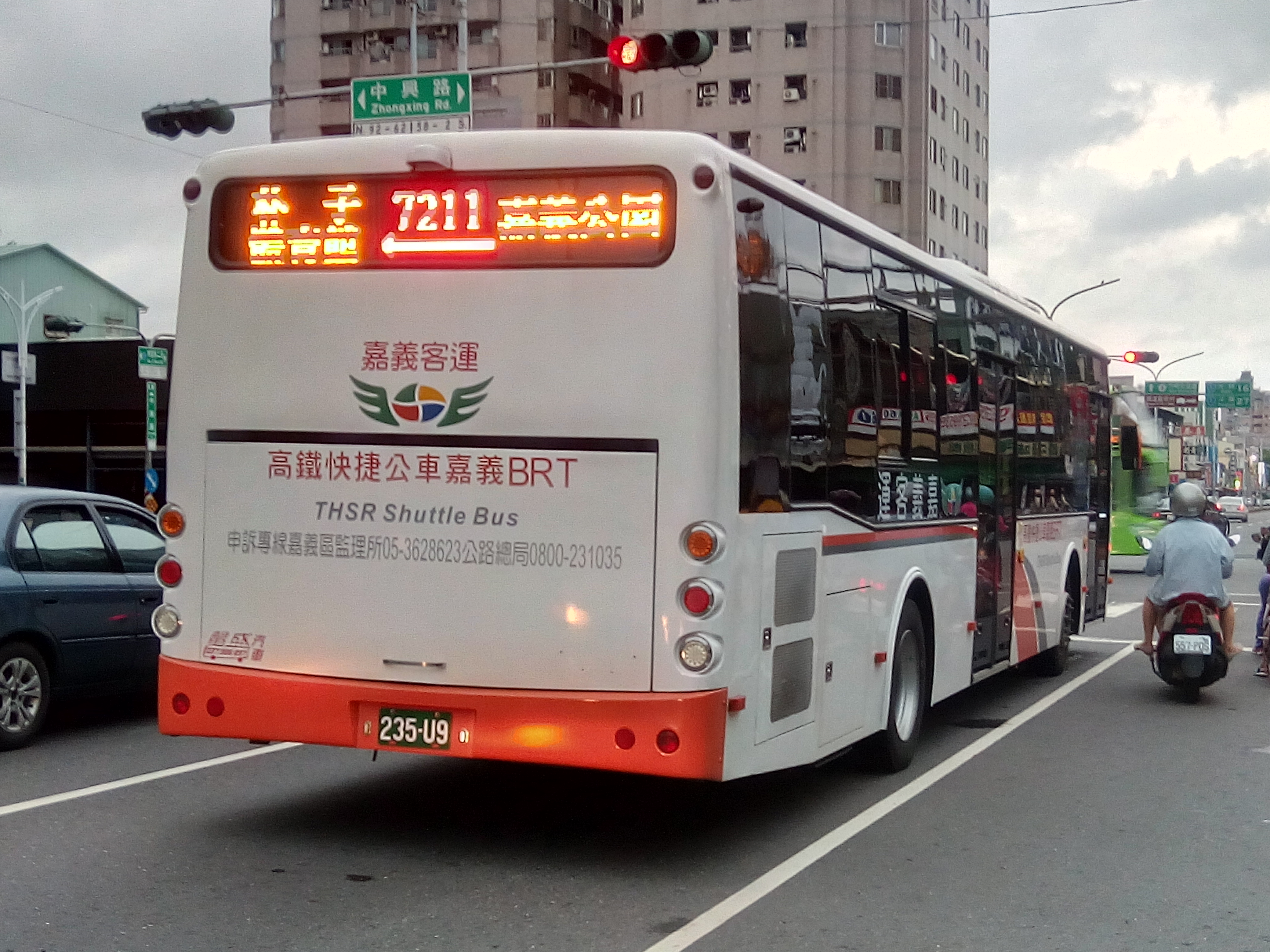 Chiayi BRT 235-U9